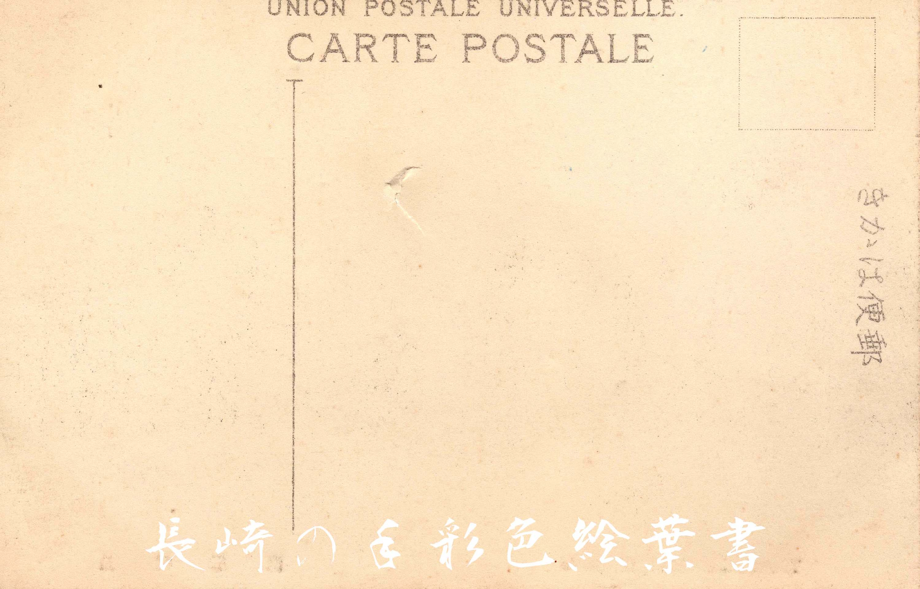 Nagasaki Prefectual Government, Back of Postcard, Antique Hand-Tinted Postcards of Nagasaki